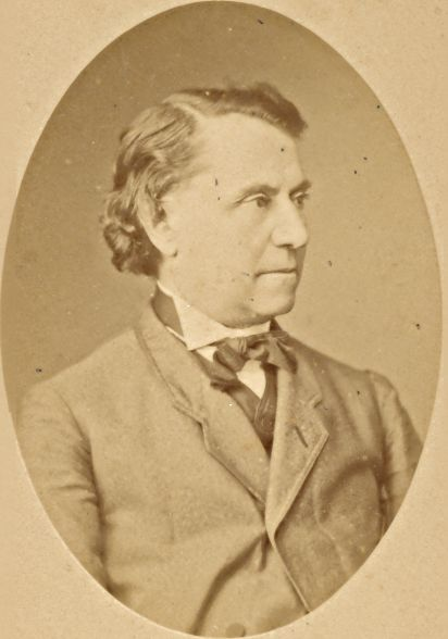 French politician and historian Louis Blanc (1811-1822)